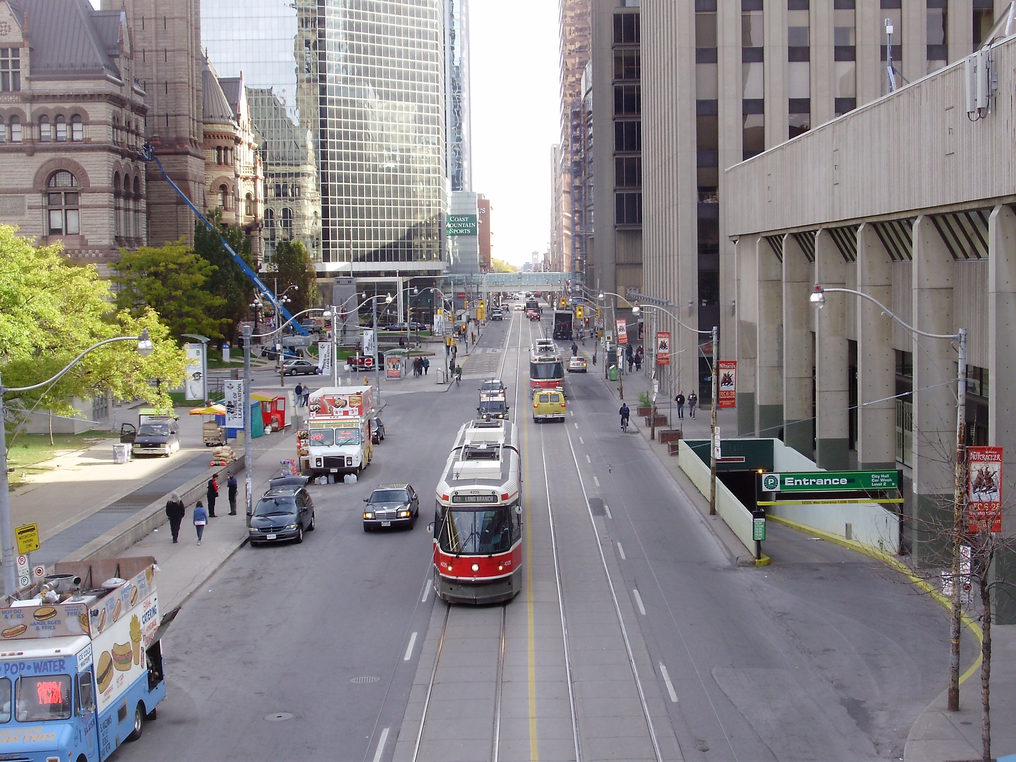 Looking east along Queen Street West from an elevated walkway connecting Nathan Phillips Square to the Sheraton Hotel in downtown Toronto, Ontario, Canada.